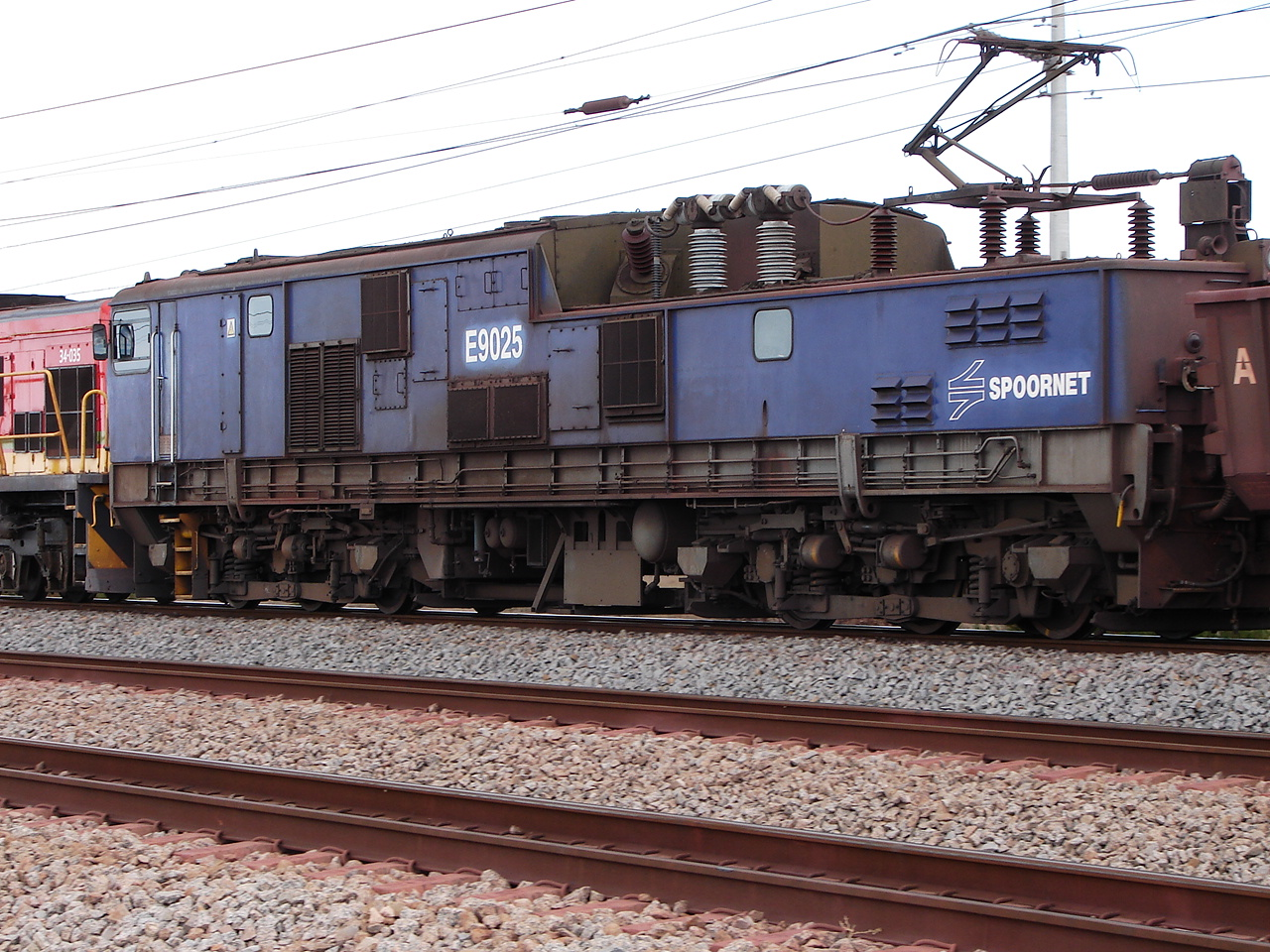 South African Class 9E Series 1 E9025Builder's Number: GEC 5569/1978-79Location: Saldanha, Western Cape